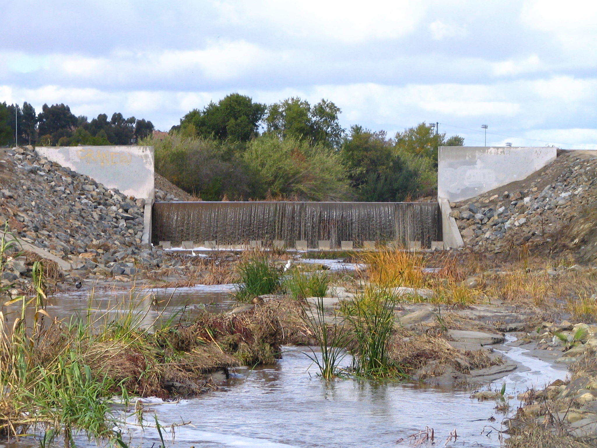 A concrete dam on Aliso Creek upstream of the Aliso Creek Road bridge. Was taken from the riverbed during typical wet season flow.